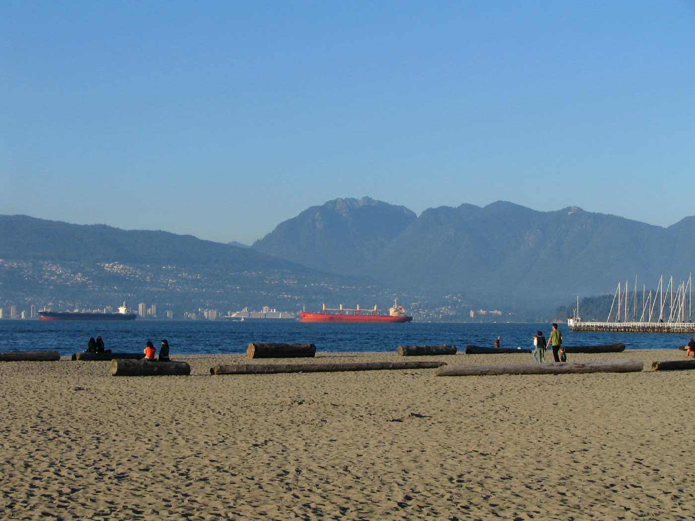 Jericho Beach, Vancouver, BC. This image was created by me, Flying Penguin of Pacific Spirit Photography of Burnaby, British Columbia, Canada.